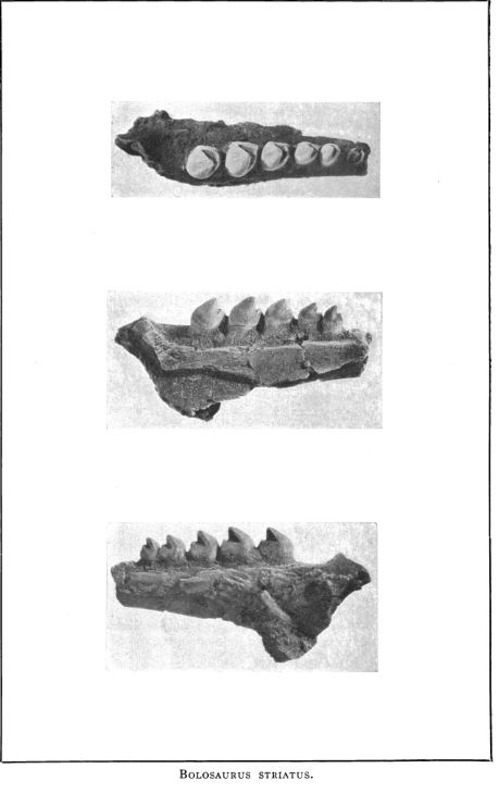 jaw and teeth